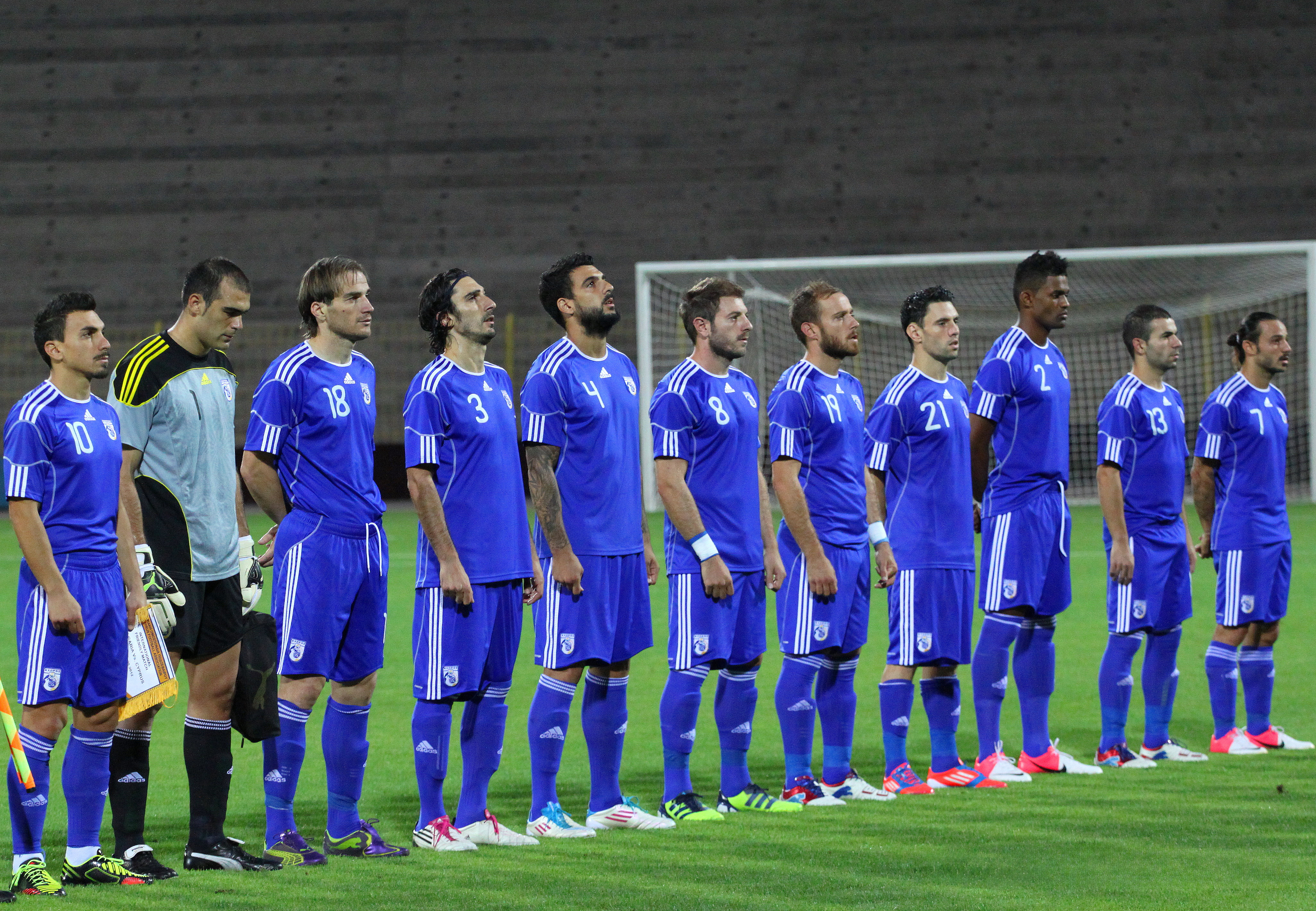 Cyprus national football team, 15-8-2012, Sofia, Bulgaria.